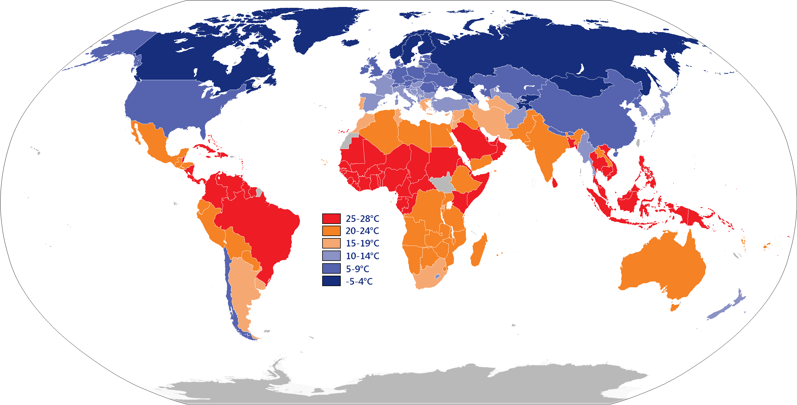 Average yearly temperature is calculated by averaging the minimum and maximum daily temperatures in the country, averaged for the years 1961–1990, based on gridded climatologies from the Climatic Research Unit elaborated in 2011.[1] Figures rounded to nearest whole number.